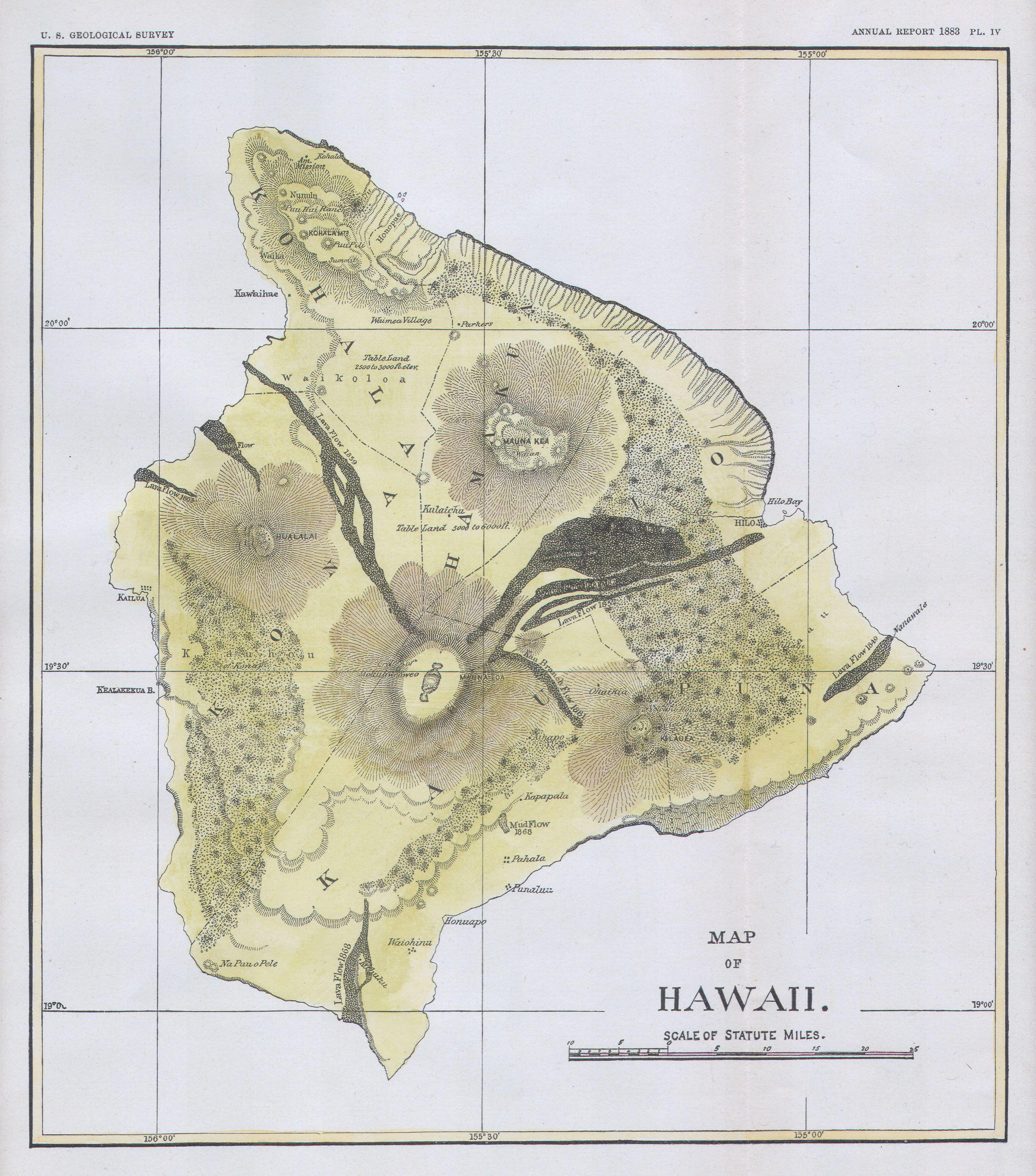 This beautiful and fascinating map of the island of Hawaii, largest of the Hawaiian Island chain, was published for the 1883 Annual Report of the U. S. Geological Survey. Map offers detailed topographical and geological information in reference to forests, mountains, volcanoes, and lava flows.